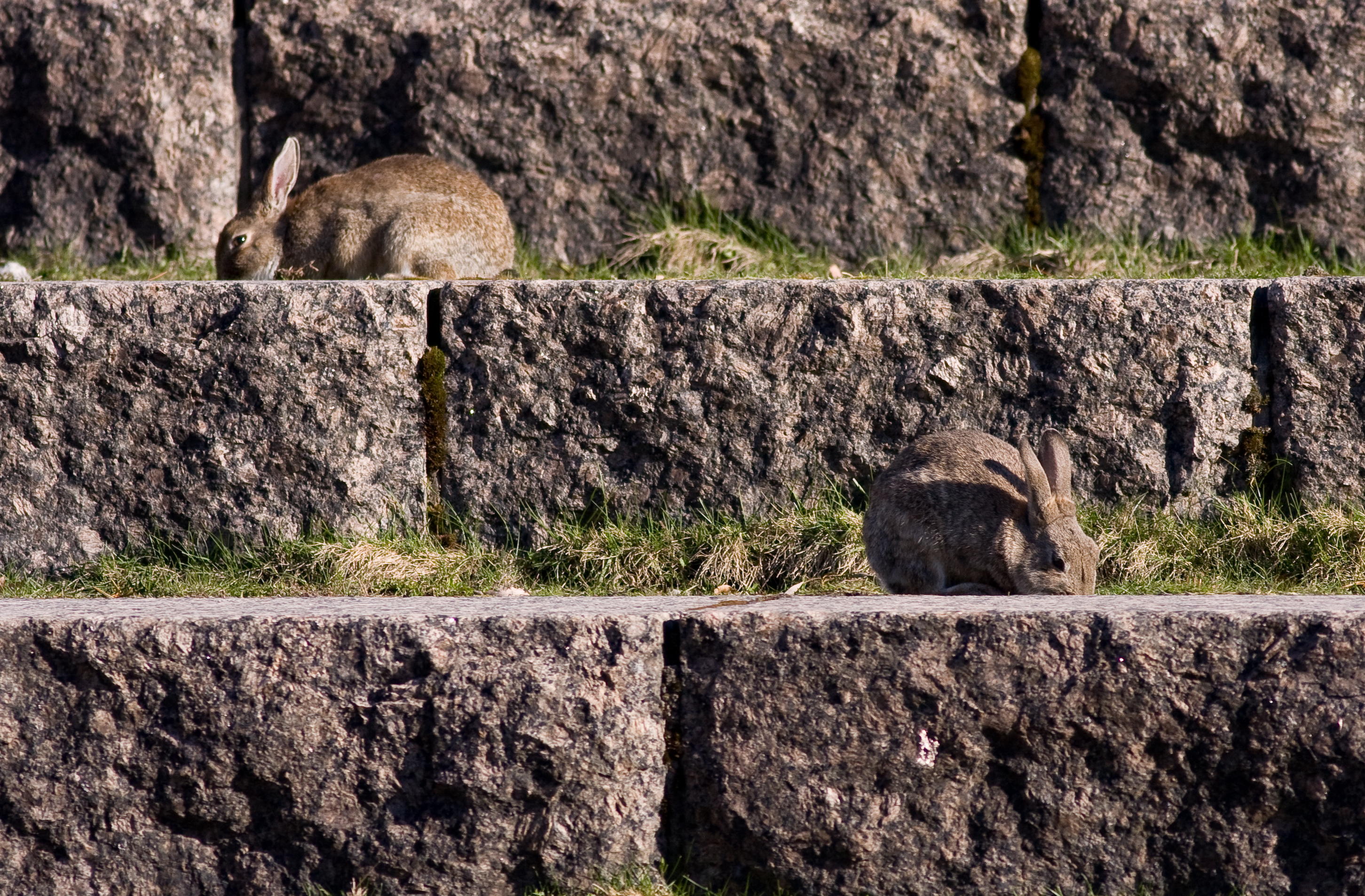 Two European Rabbits (Oryctolagus cuniculus) on the steps of Finnish National Opera. In Helsinki region freed pet rabbits are considered pests.